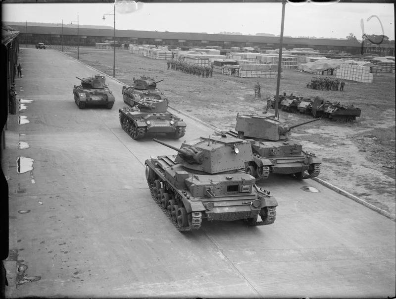 The British Army in the United Kingdom 1939-45 Two Cruiser Mk IIA tanks, a Valentine and two Matilda IIs at the Central Ordnance Depot at Chilwell, Nottinghamshire, 15 August 1940.